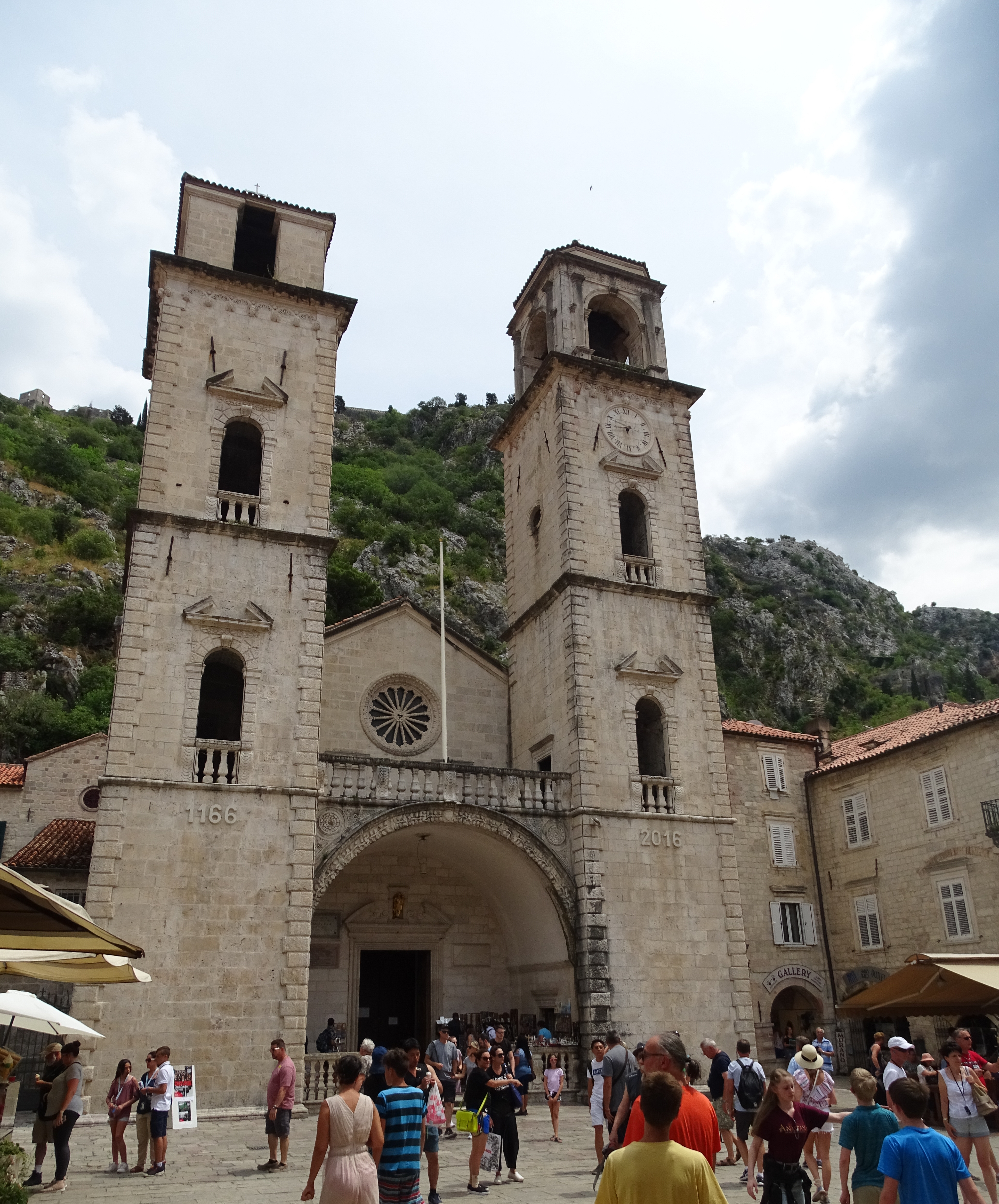 Saint Triphon Cathedral, Kotor, Montenegro.